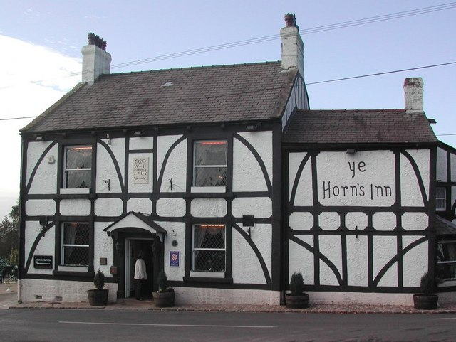 Ye Horn's Inn Part of the hamlet of Hill Chapel close to Goosnargh.